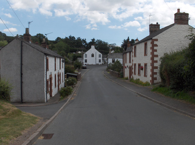 Ainstable. Looking up to the New Crown Inn.